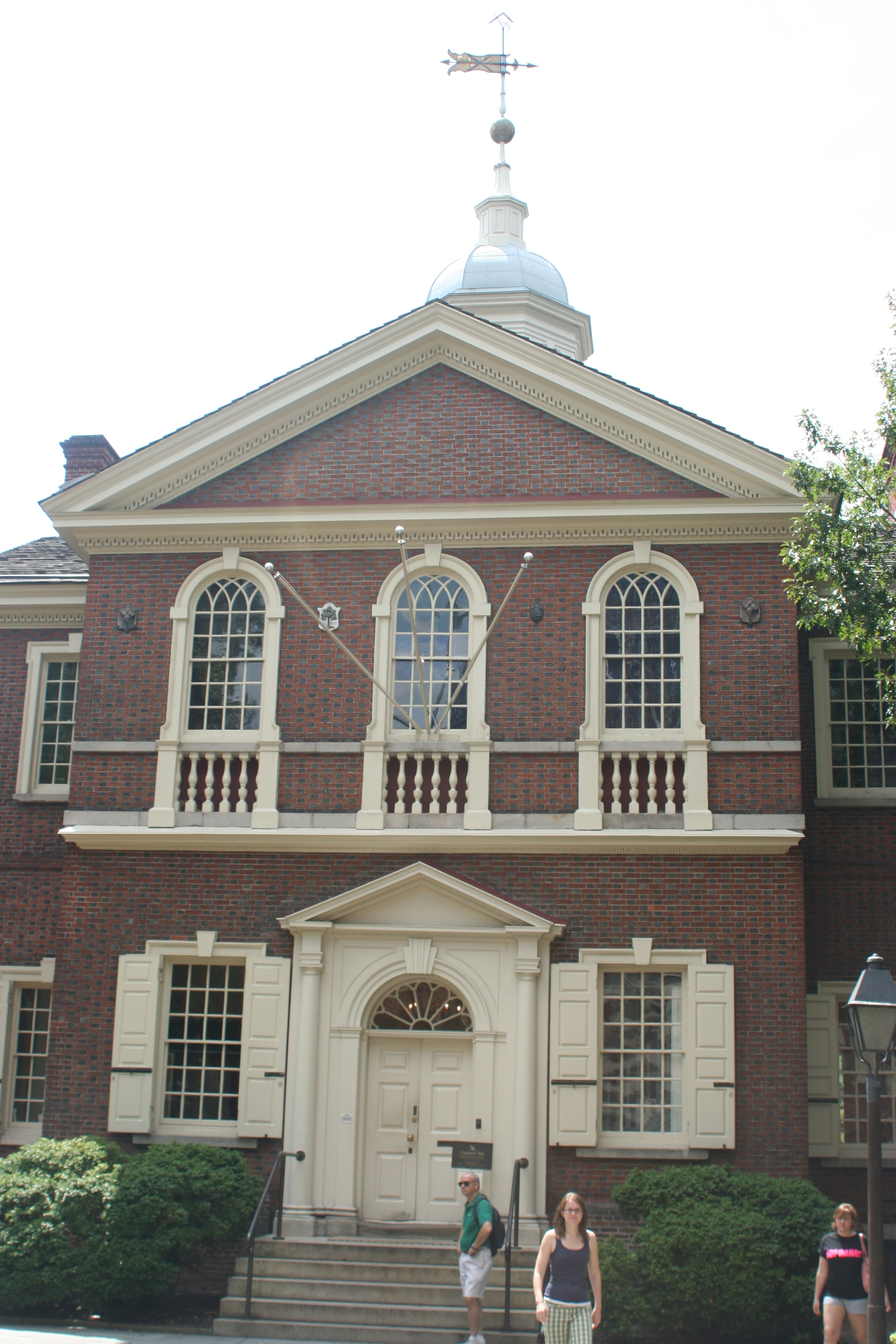 Carpenters' Hall in Philadelphia, PA